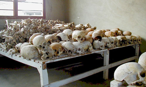 Original caption states: "Deep gashes delivered by the killers are visible in the skulls that fill one room at the Murambi School." Aftermath of Rwandan Genocide.